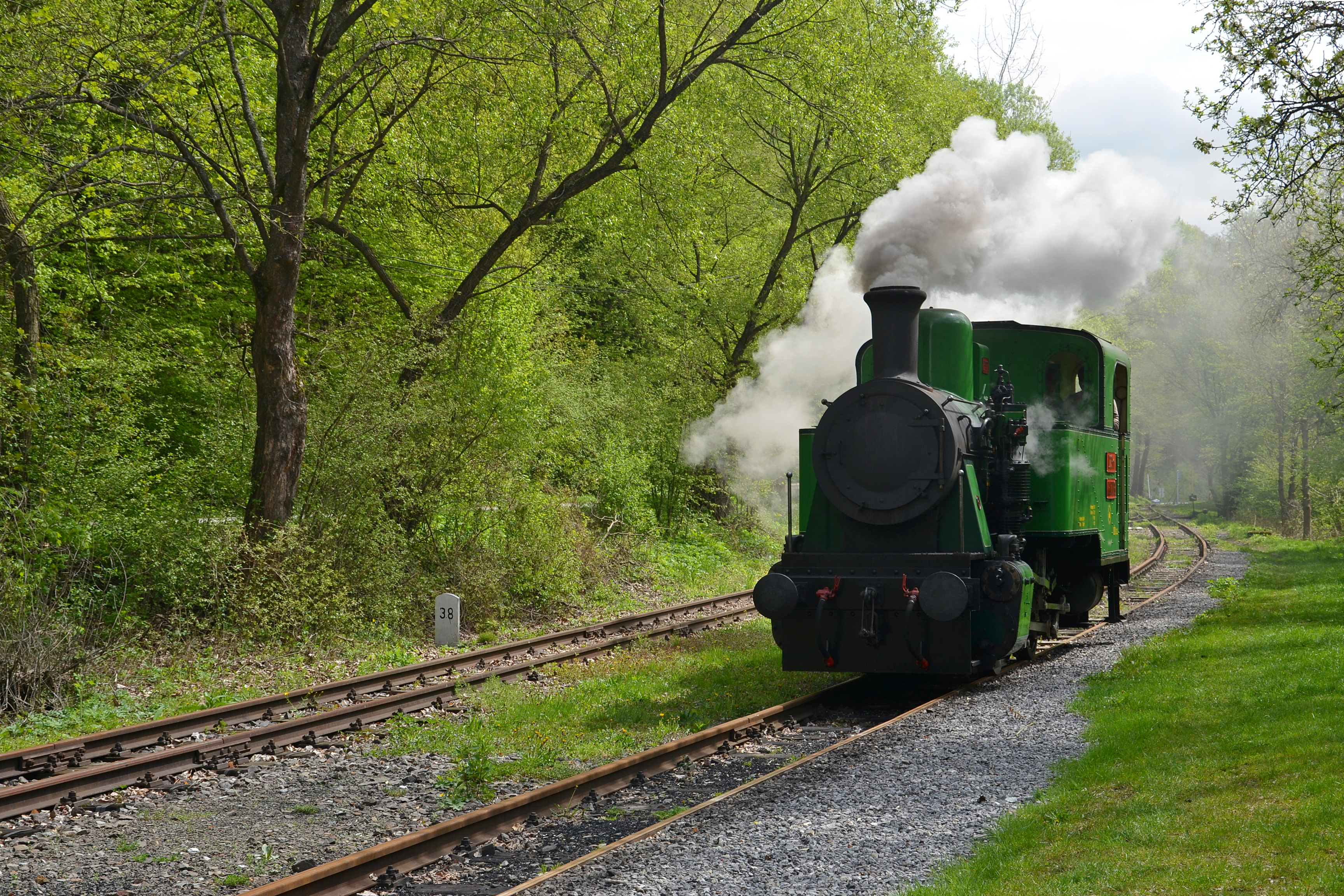 Čermeľská železnica - narrow-gauge locomotive "Krutwig"